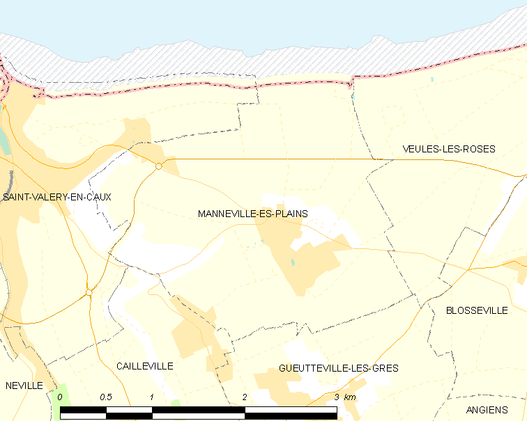 Map of French municipality Manneville-ès-Plains